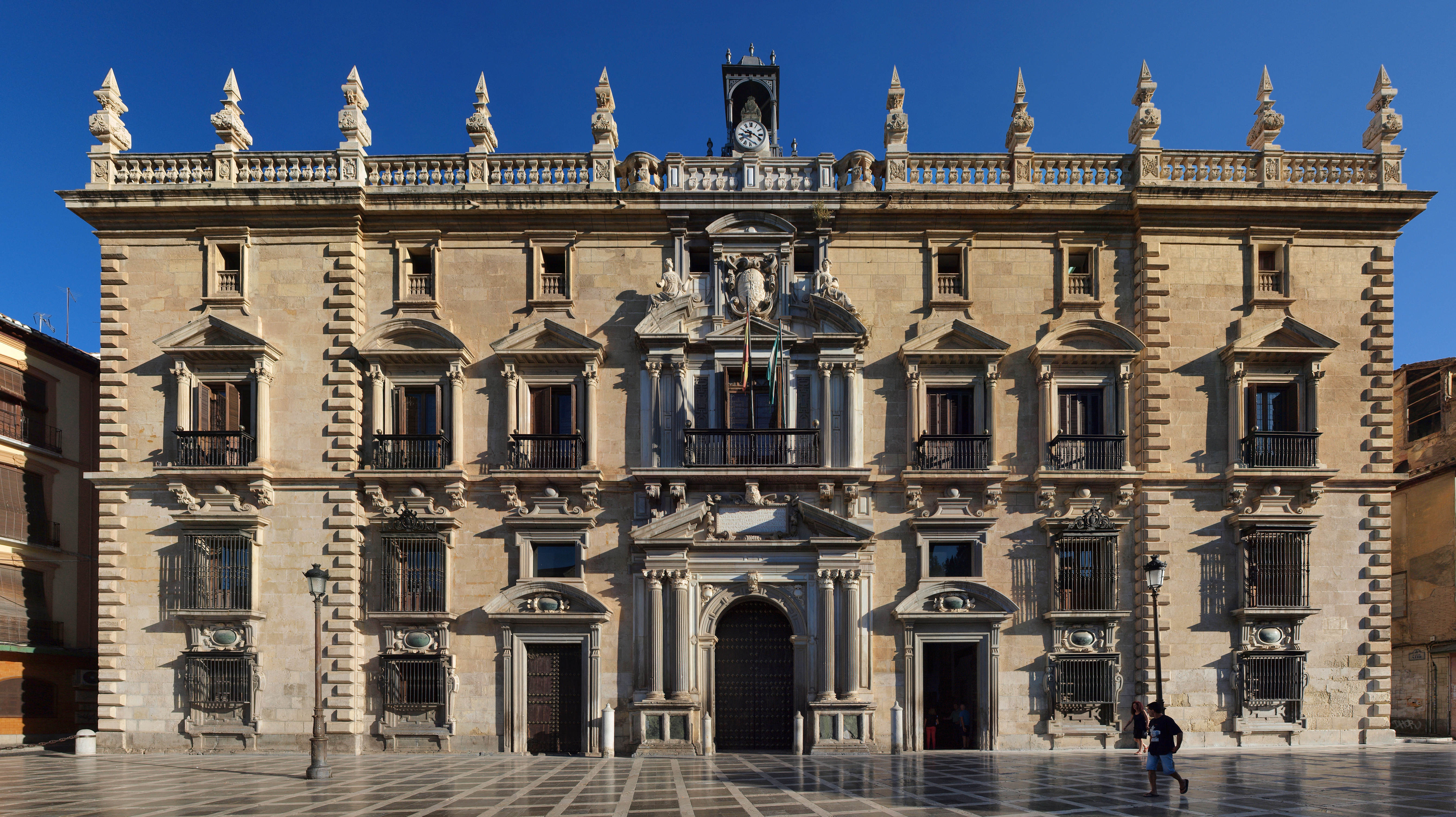 Granada, Plaza Nueva, Palacio de la Real Chancillería de Granada; stitch of 10 vertical images